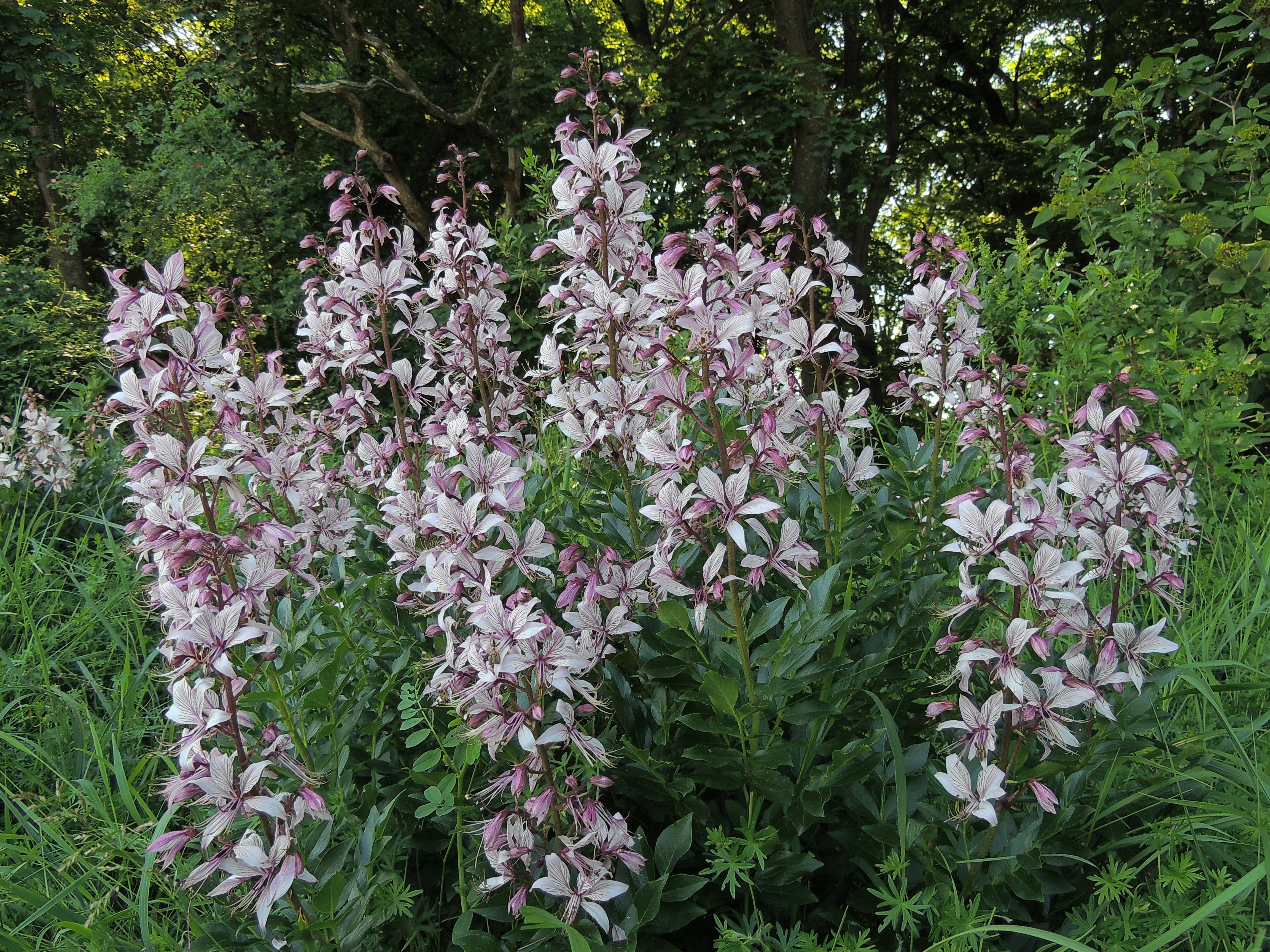 burning bush Diptam frăsinel